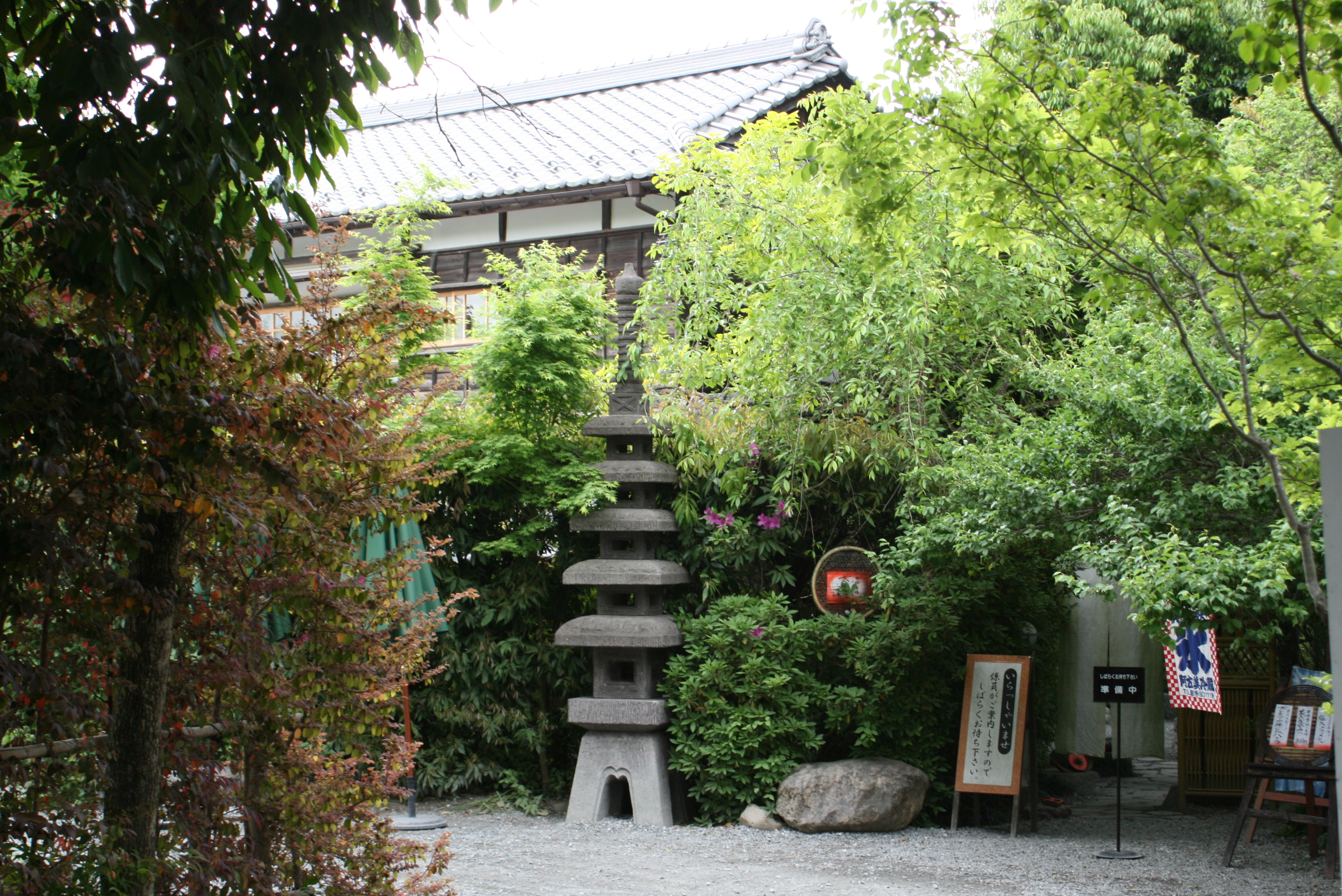 Asami reizou main shop in Kanasaki Nagatoro, Saitama pref. JAPAN